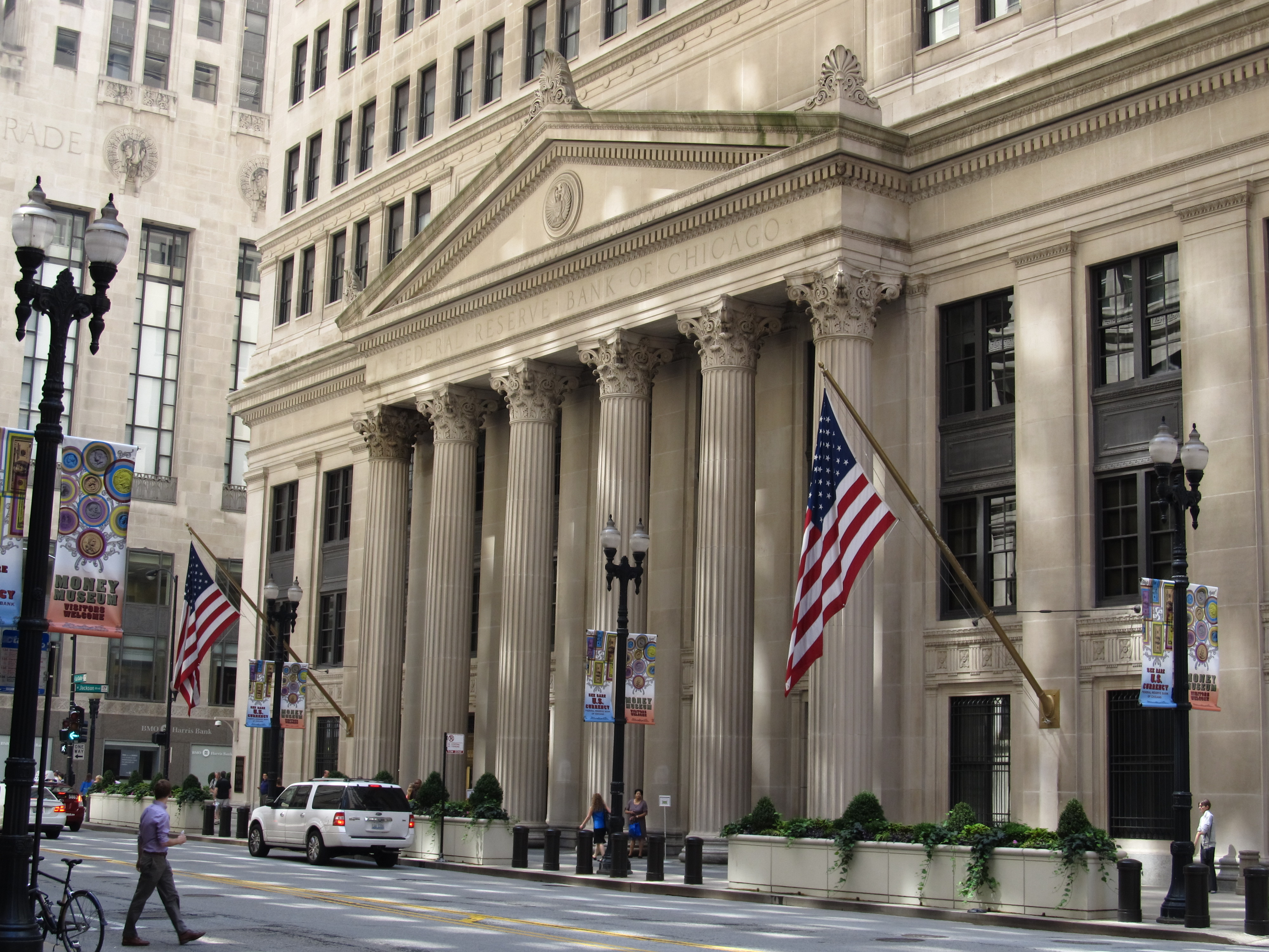 The Federal Reserve Bank of Chicago (informally the Chicago Fed) is one of twelve regional Reserve Banks that, along with the Board of Governors in Washington, D.C., make up the nation's central bank. The Chicago Reserve Bank serves the Seventh Federal Reserve District, which encompasses the northern portions of Illinois and Indiana, southern Wisconsin, the Lower Peninsula of Michigan, and the state of Iowa. In addition to participation in the formulation of monetary policy, each Reserve Bank supervises member banks and bank holding companies, provides financial services to depository institutions and the U.S. government, and monitors economic conditions in its District.